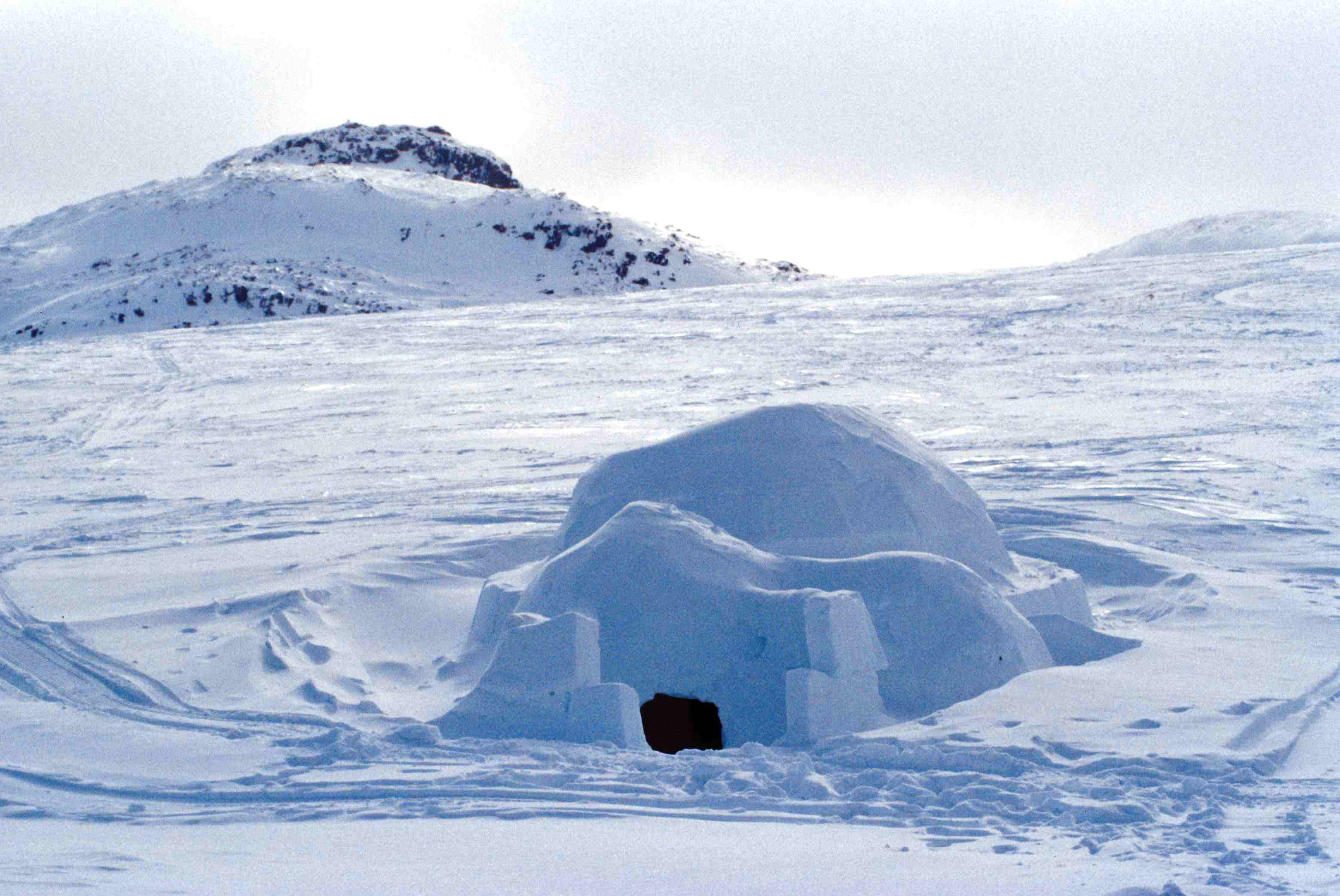 Big iglu in front of Kinngait (southern region of Baffin Island)